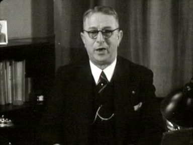 David van Staveren, chairman of the Centrale Commissie voor de Filmkeuring.